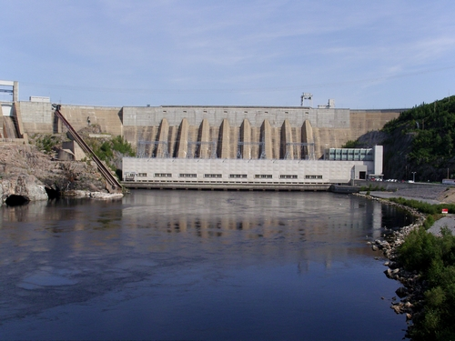 Hydro-Québec's Jean-Lesage hydroelectric station, located 25 km north of Baie-Comeau, Quebec.